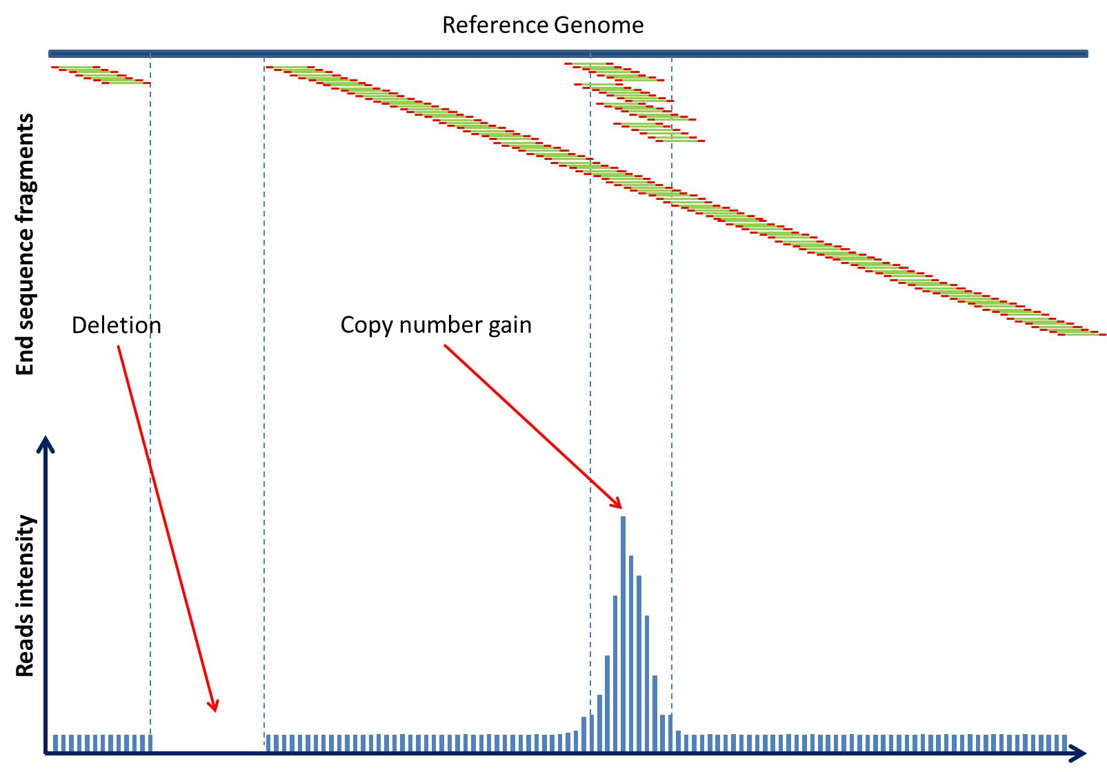 Jun Hao, Own work